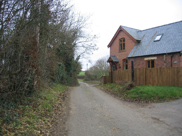 Longdon Road Station Level Crossing. The site of the level crossing on the former Moreton-in-Marsh to Shipston-on-Stour branch, right on the southern edge of the square. The station was to the left in the bushes however the site of the level crossing can be seen by the hump in the roadway and the two surviving cast iron gateposts in the new fence on the right. The former crossing keepers cottage seems to have survived as a small annex of a much larger complex of housing built on the old railway formation.